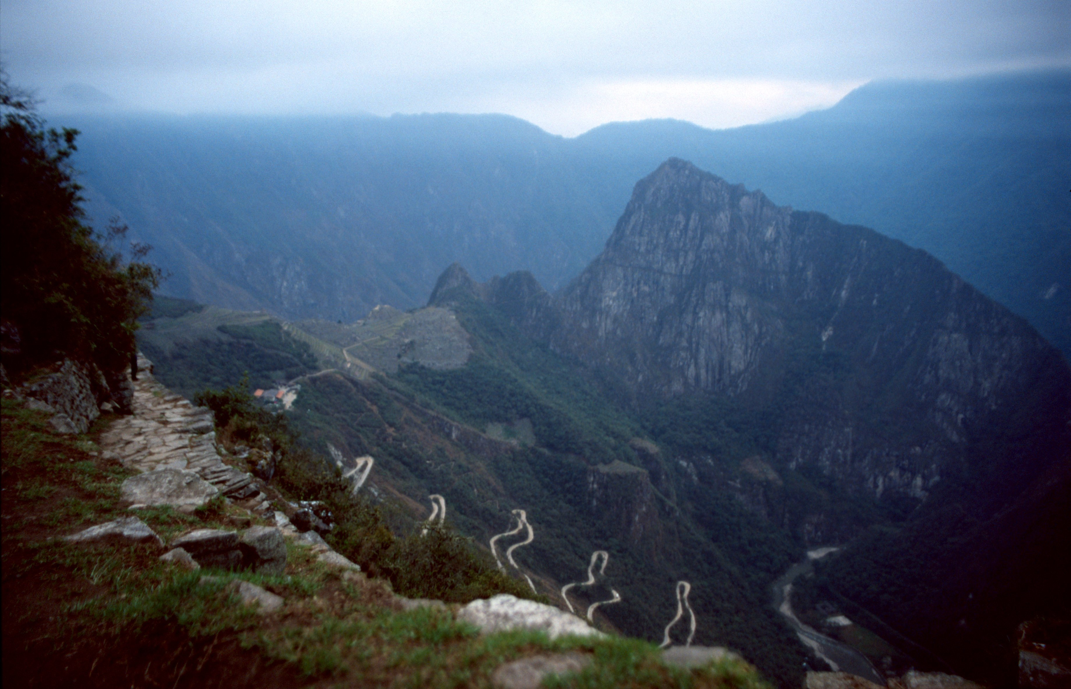 Inca trail from Cusco to Machu Picchu in Perú. Day 4. First view of Machu Picchu before sunrise from Inti Punku.